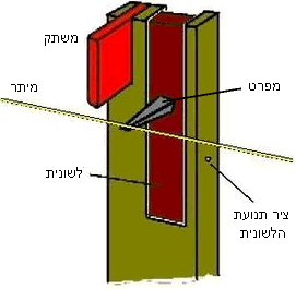 hebrew version of Image:Jack.jpg